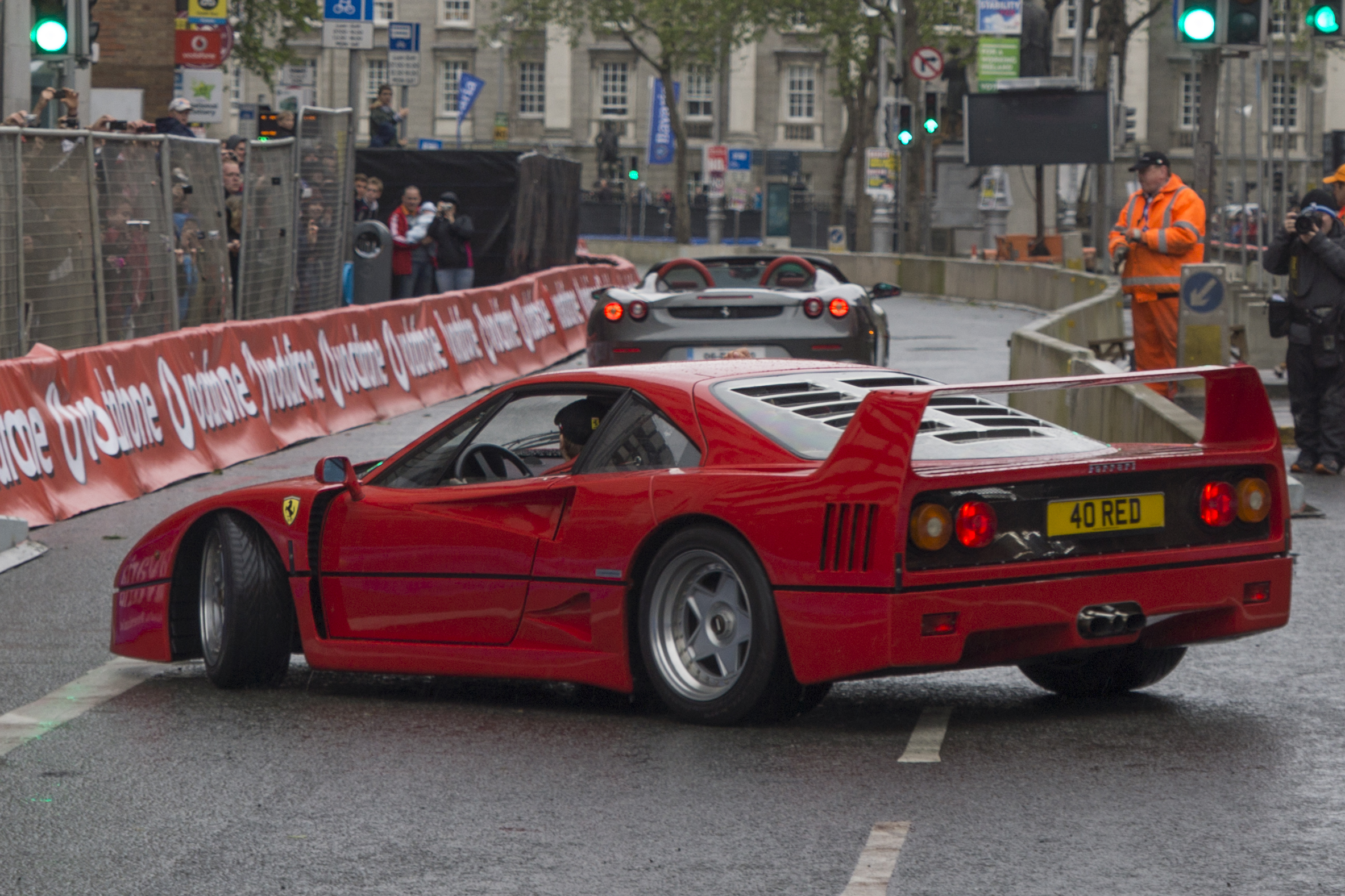 Ferrari Parade at the Bavaria City Racing in Dublin.